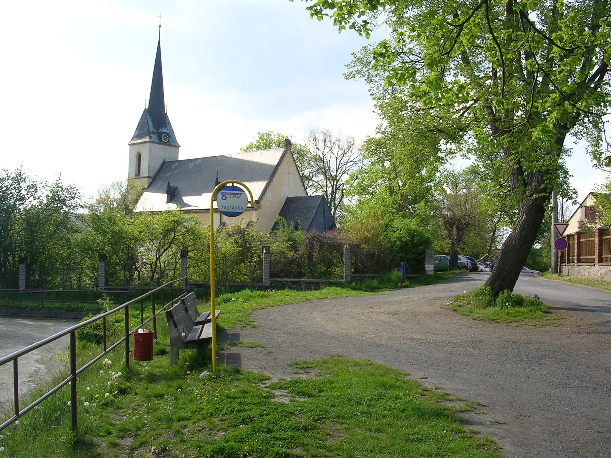 Křivoklát-Amalín, Rakovník District, Central Bohemian Region, the Czech Republic. - OpenStreetMap(Info)